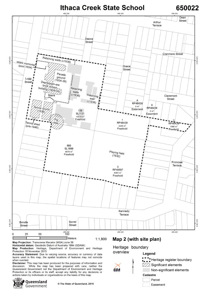 Ithaca Creek State School - boundary map 2 (2015)